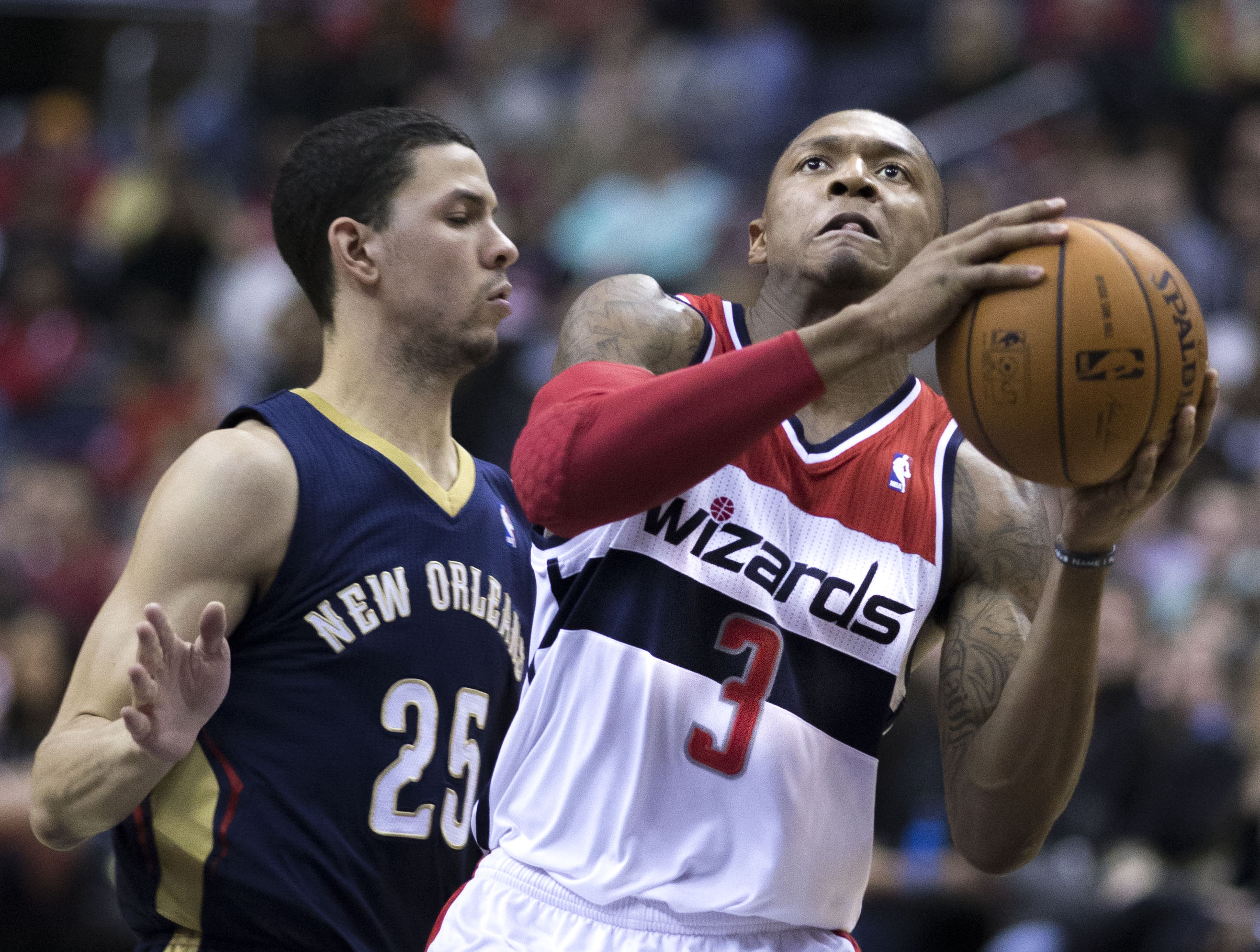 Pelicans at Wizards 2/22/14